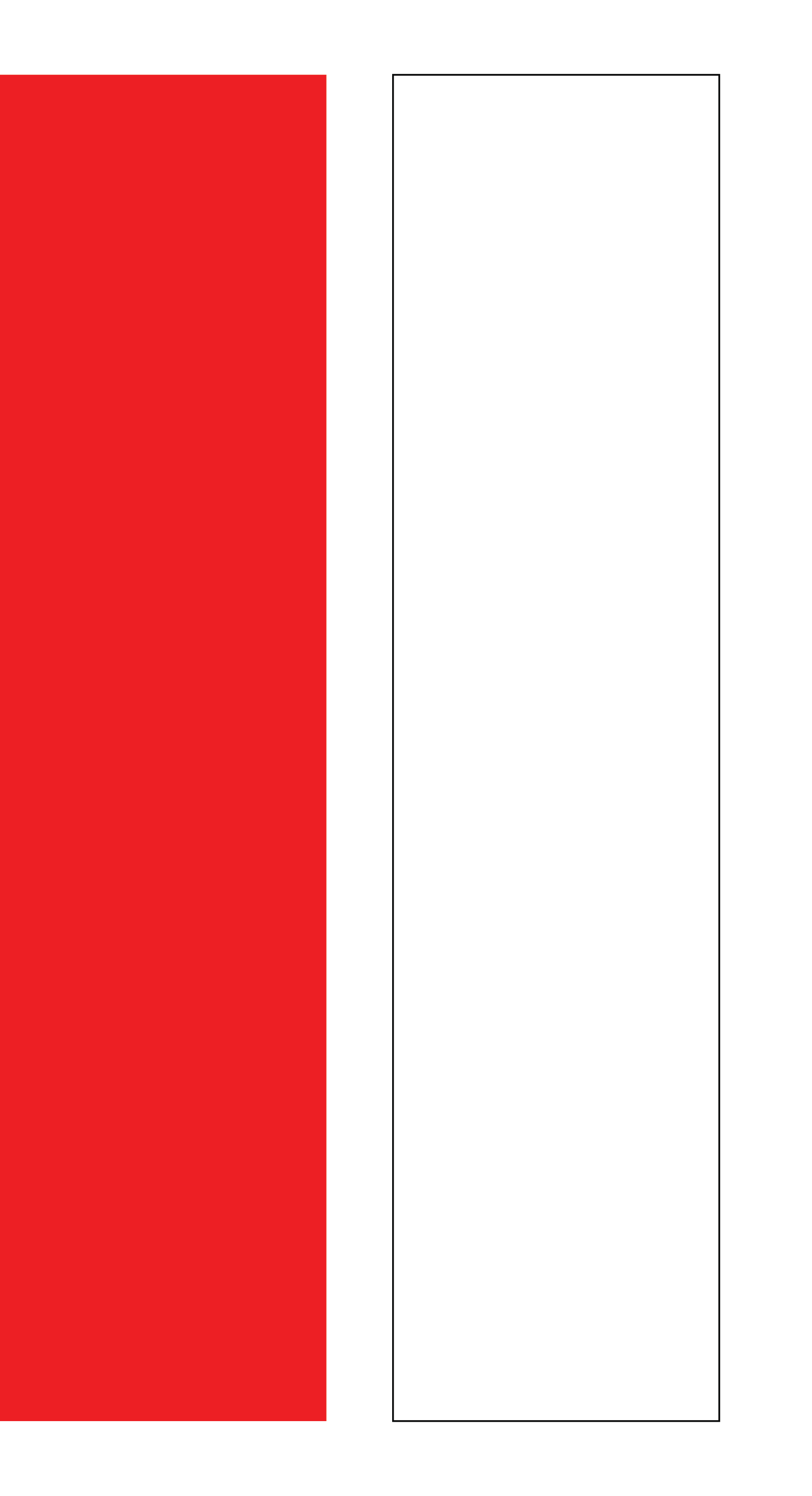 Based on David Nicolle "Armies of the Muslim Conquest" illustrations by Angus McBride. And Martin Hinds "The Banners and Battle Cries of the Arabs at Siffin" Al-Abhath XXIV